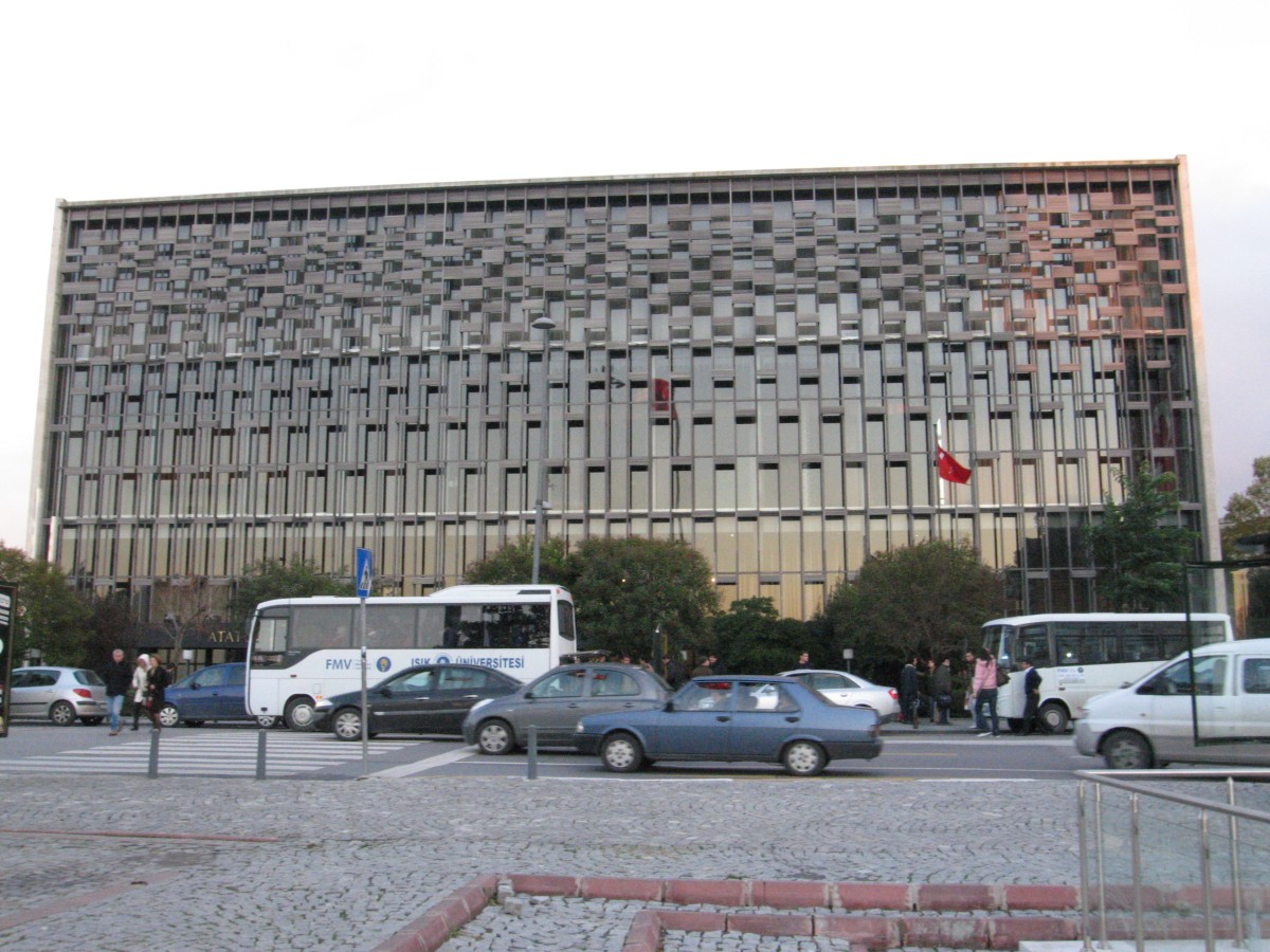 Atatürk Cultural Center in Taksim quarter of Istanbul, Turkey.